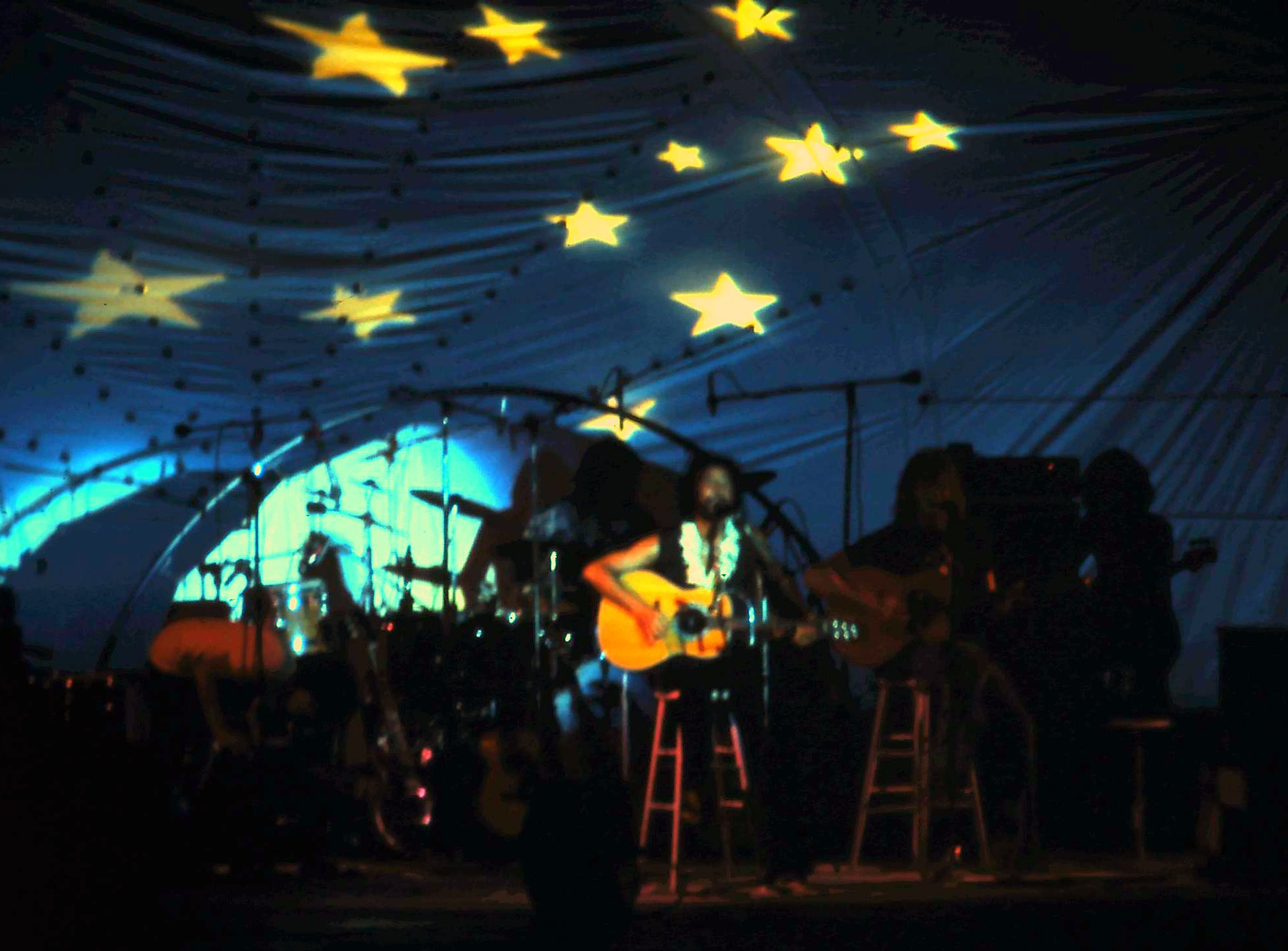 Cat Stevens on tour in Waikiki Shell, Oahu, Hawaii, 1974